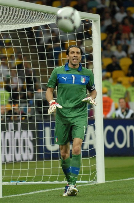 Gianluigi Buffon at Euro 2012 match against England